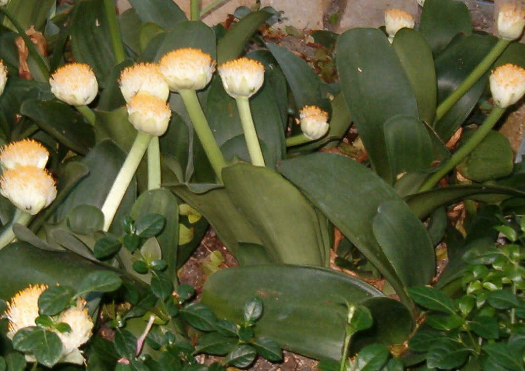 Species Haemanthus albiflorus Familia Amaryllidaceae Location: Botanical Gardens Berlin Habitus and Inflorescences